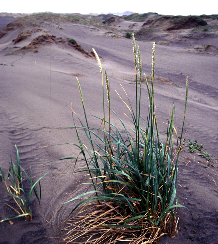 Elymus mollis ssp. mollis (syn: Leymus mollis) — American dune wild-rye at the Humboldt Bay National Wildlife Refuge Complex, in northern California.